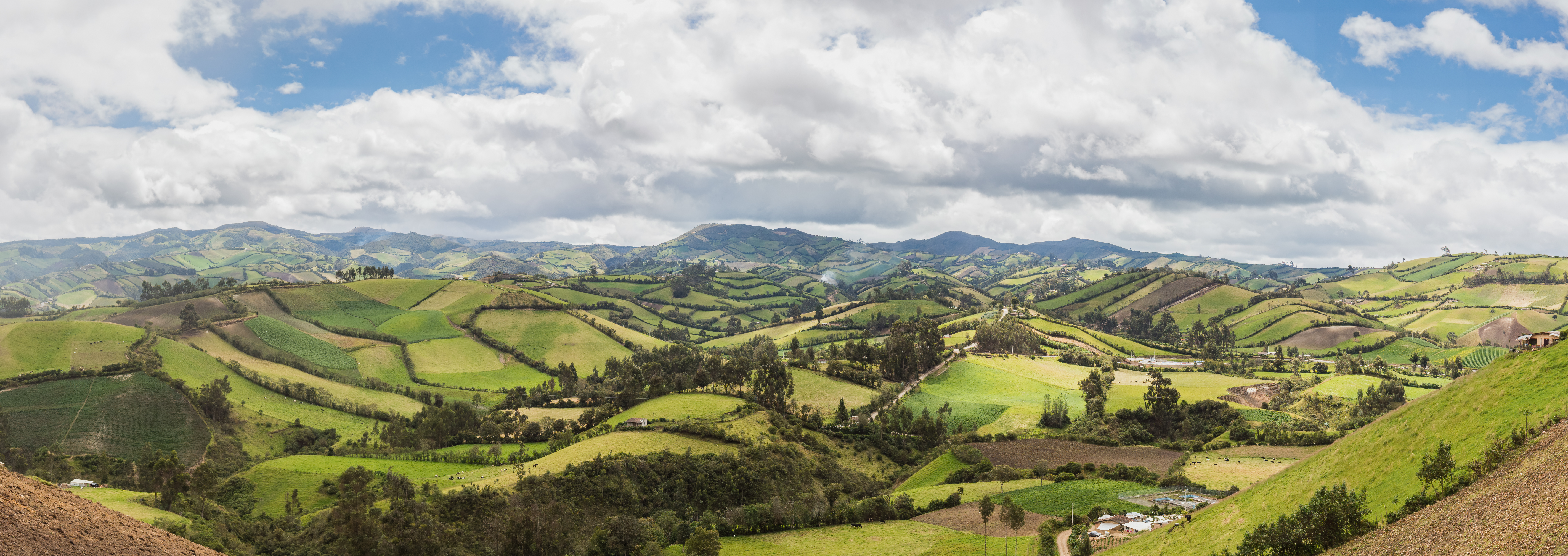 View from Julio Andrade, Carchi Province, Ecuador